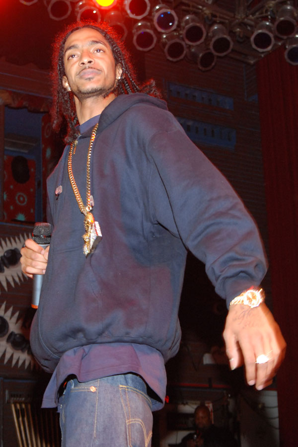 Nipsey Hussle at the House of Blues Chicago on March 30, 2009